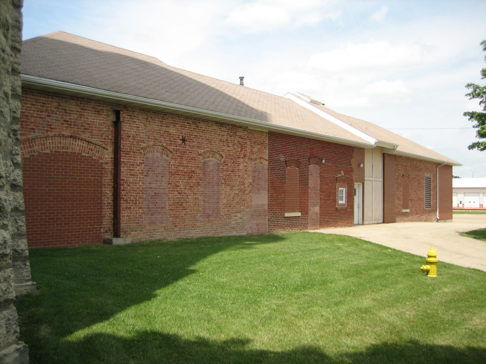 Lena Water Tower, Lena, Illinois, USA. U.S. National Register of Historic Places.